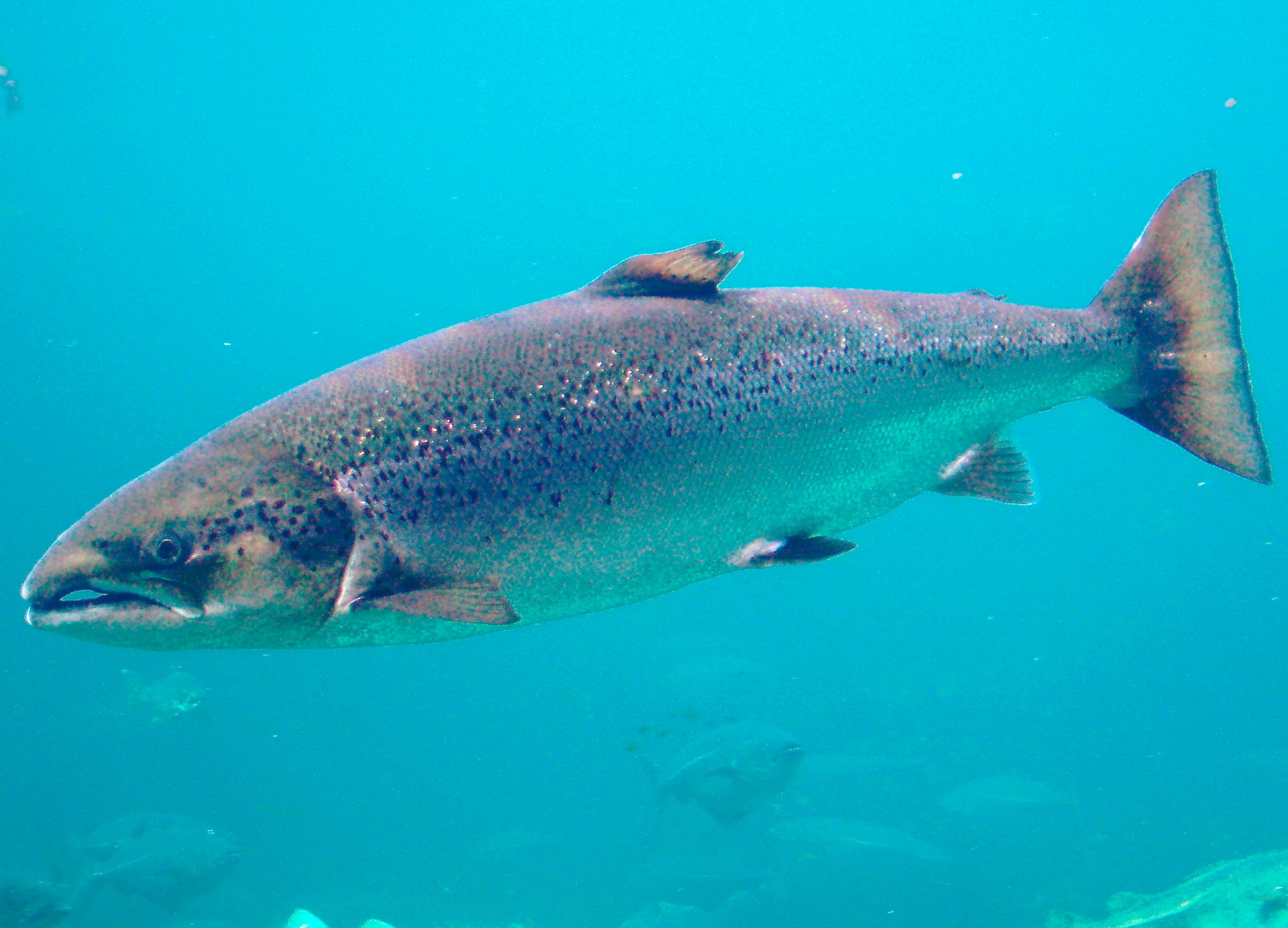 Atlantic Salmon, Salmo salar, Taken thru glas, in Atlanterhavsparken, Ålesund, Norway